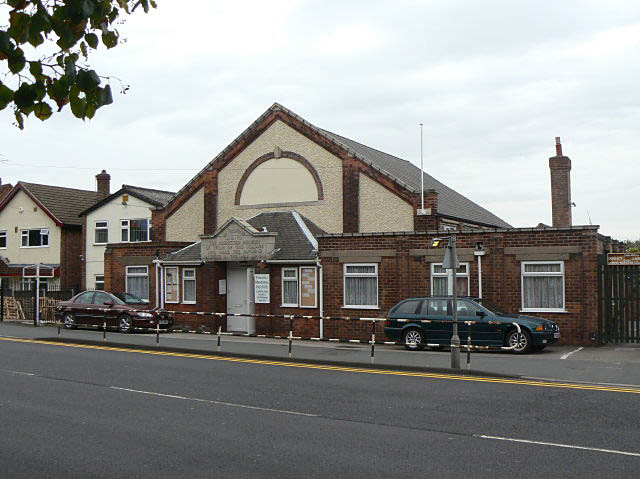 Chilwell Memorial Institute. Built to commemorate the fallen of the Great War 1479041.